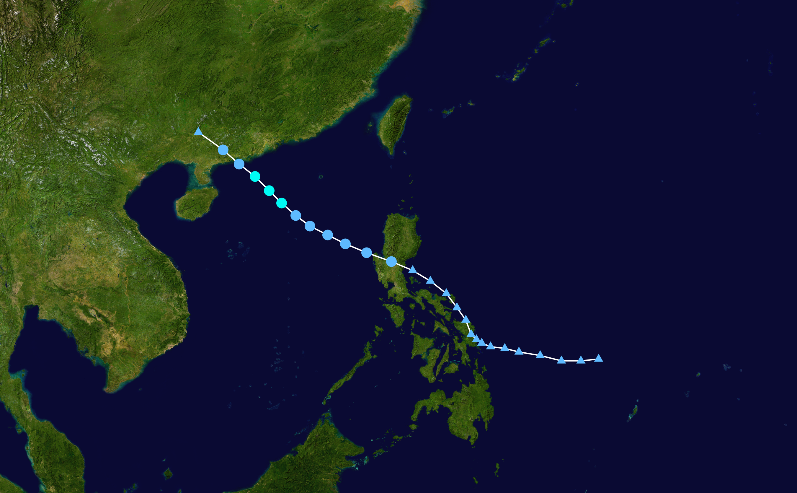 Track map of Tropical Storm Nuri of the 2020 Pacific typhoon season. The points show the location of the storm at 6-hour intervals. The colour represents the storm's maximum sustained wind speeds as classified in the Saffir–Simpson scale (see below), and the shape of the data points represent the nature of the storm, according to the legend below. Saffir–Simpson scale Tropical depression≤38 mph≤62 km/h Category 3111–129 mph178–208 km/h Tropical storm39–73 mph63–118 km/h Category 4130–156 mph209–251 km/h Category 174–95 mph119–153 km/h Category 5≥157 mph≥252 km/h Category 296–110 mph154–177 km/h Unknown Storm type Tropical cyclone Subtropical cyclone Extratropical cyclone / Remnant low / Tropical disturbance / Monsoon depression